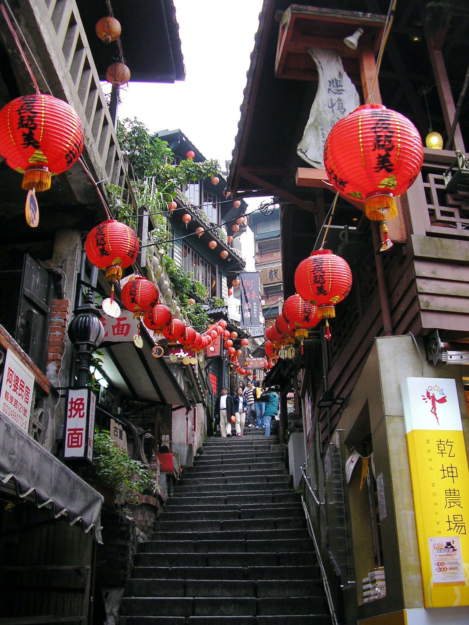 Shuchi Street (豎崎路) in the town of Jioufen. Taken in Jioufen, Taipei County, Taiwan by User:Changlc, 1-2-2006.